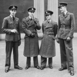 AWM caption: "LONDON, ENGLAND. 1943-11-09. RAF MEMBERS OF NO. 466 SQUADRON RAAF WHO RECEIVED AWARDS AT AN INVESTITURE AT BUCKINGHAM PALACE. LEFT TO RIGHT: FLYING OFFICER (FO) R. J. HOPKINS DSO, NEWPORT, MON PILOT OFFICER (PO) F. C. BLAIR DFM, BELFAST, N. IRELAND PO E. F. HICKS CGM, NEWBURY PK, ESSEX FO R. F. CLAYTON DFC, CARSHALTON, SURREY